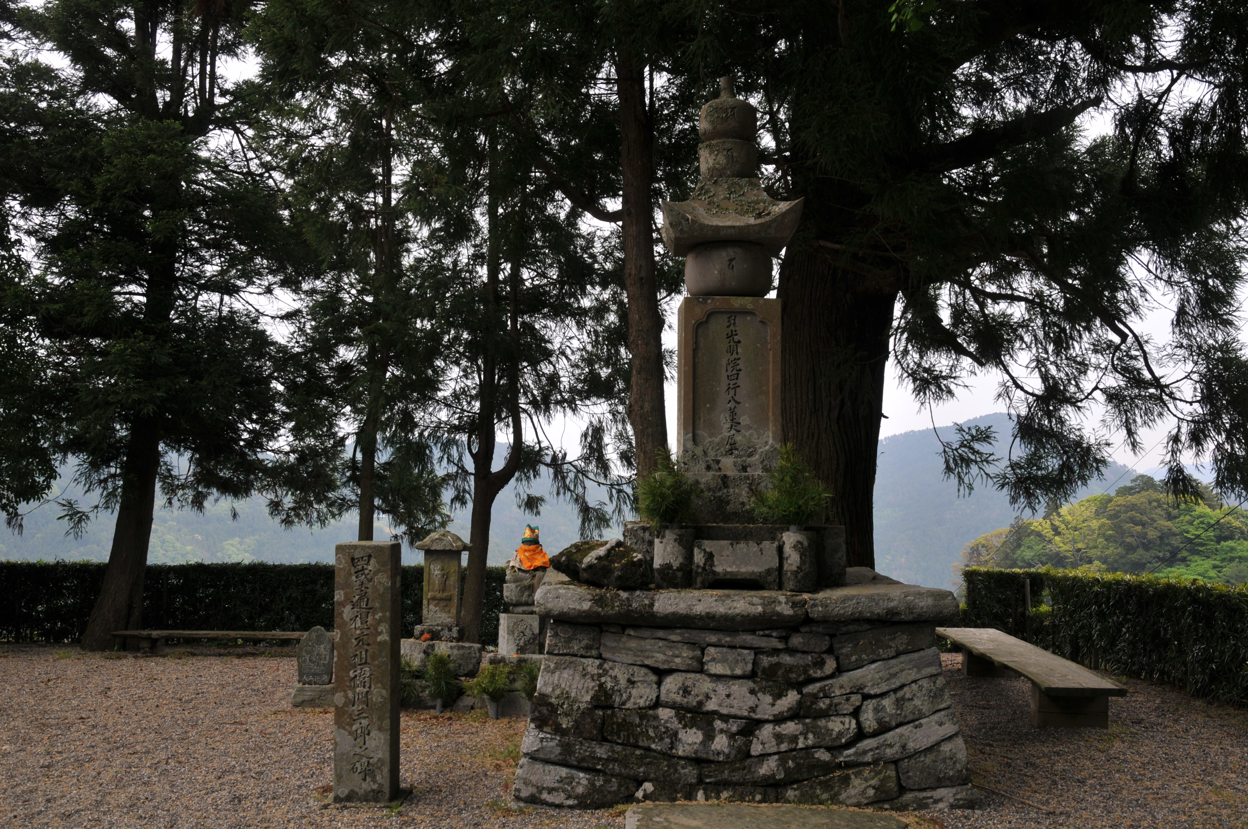 The monument of Emonsaburo, Jōshin-an